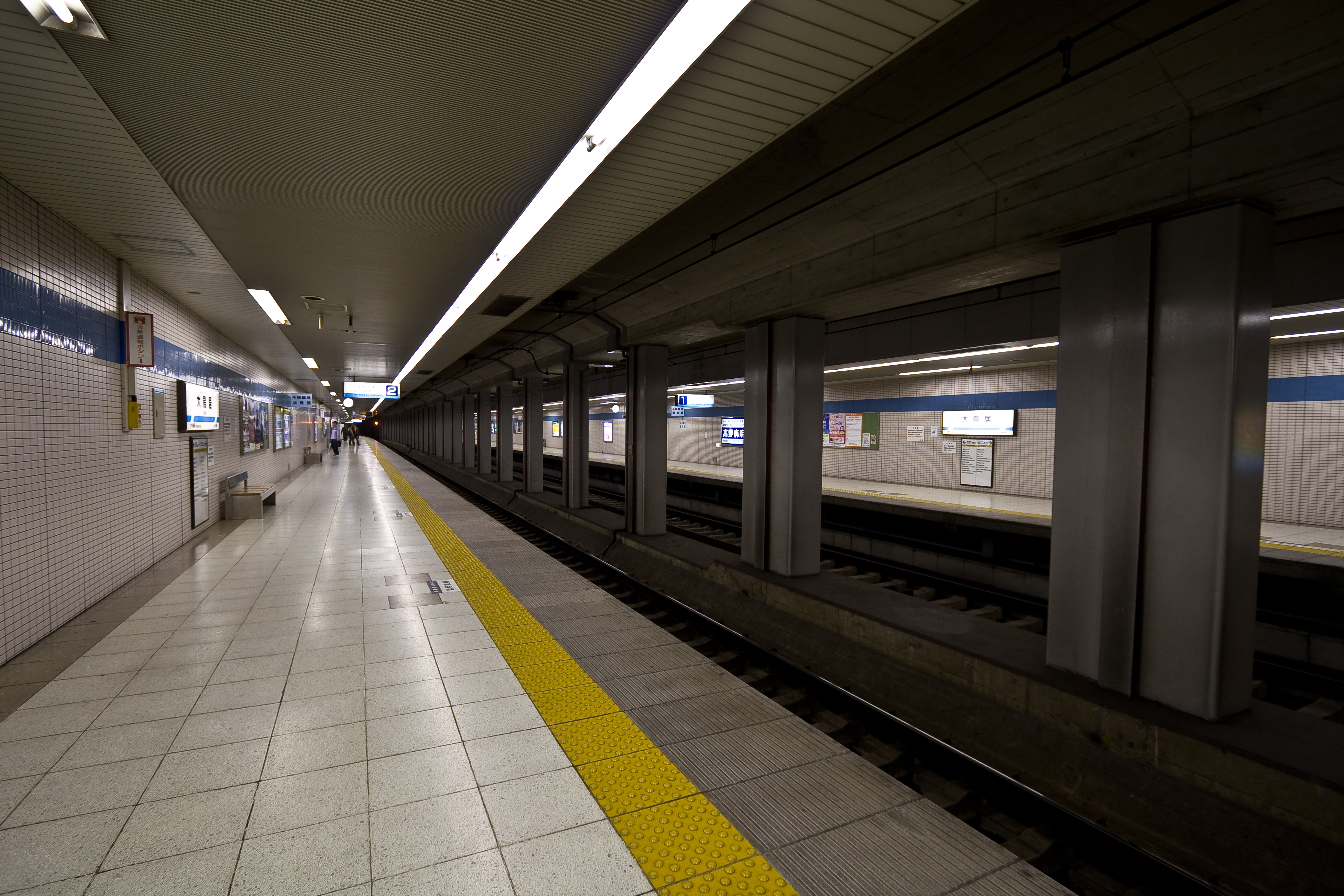 Keikyu Otorii Station platforms